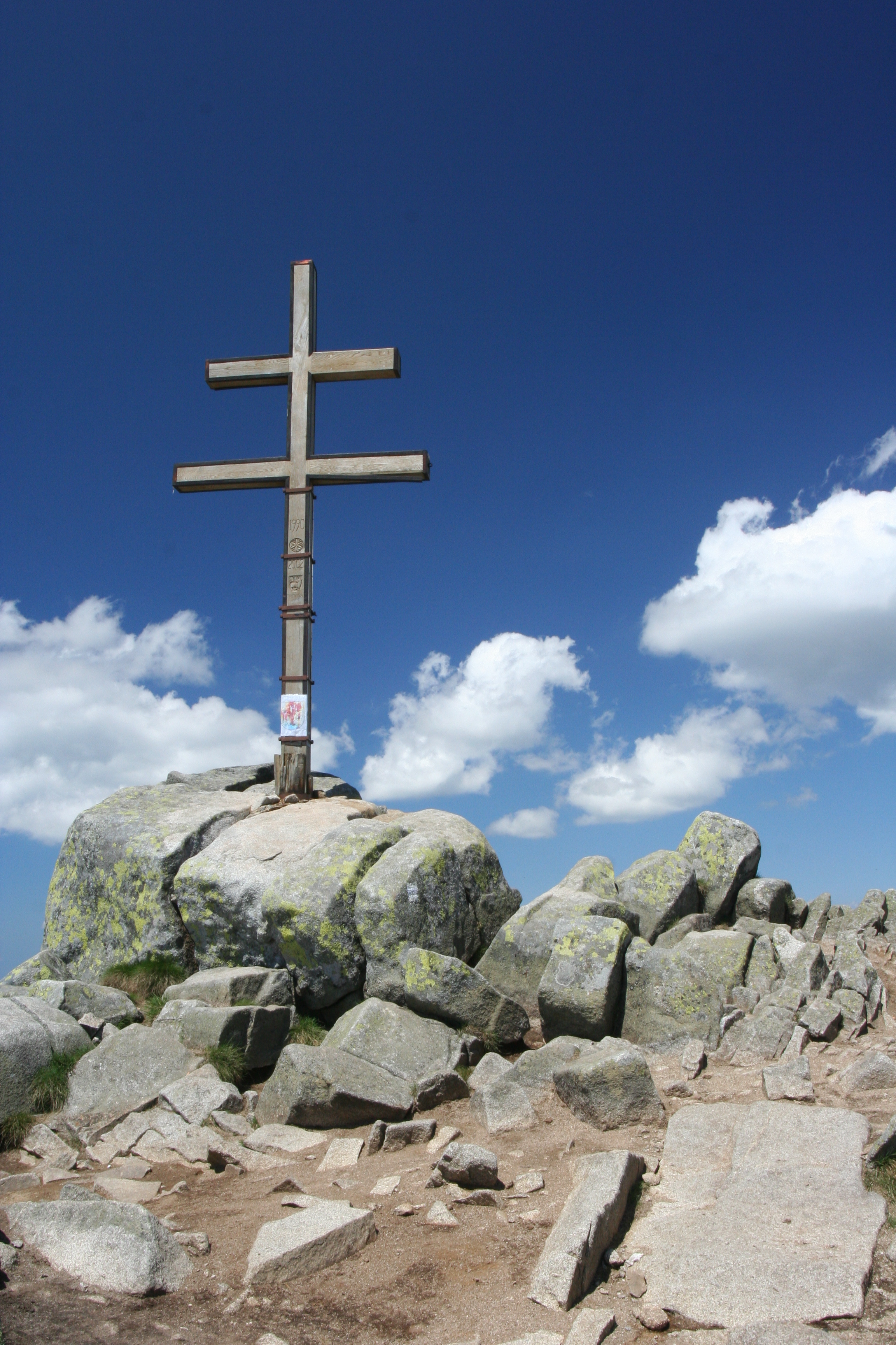 Cross on the top of Dumbier, Low Tatra range, Slovakia.